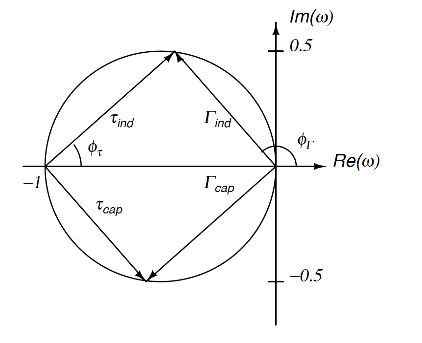 Complex reflection and transmission coefficients for metal mesh optical filters in the complex plane with phase shown.